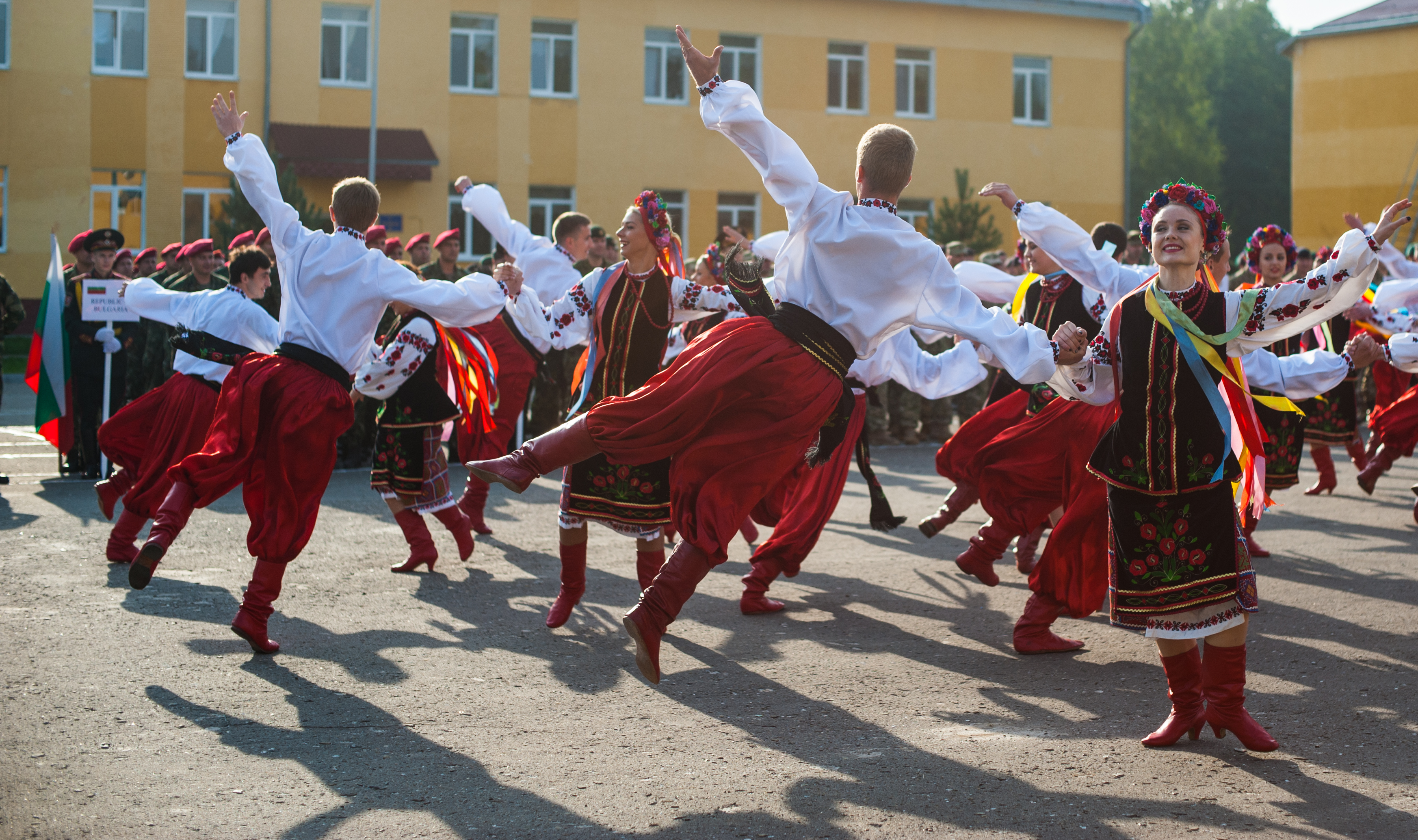 YAVORIV, Ukraine -- Traditional Ukrainian dancers perform a traditional dance for the participants of Rapid Trident 2014 during the exercises opening ceremony here Sept. 15. Rapid Trident is an annual U.S. Army Europe conducted, Ukrainian led multinational exercise designed to enhance interoperability with allied and partner nations while promoting regional stability and security. (U.S. Army photo by Spc. Joshua Leonard)